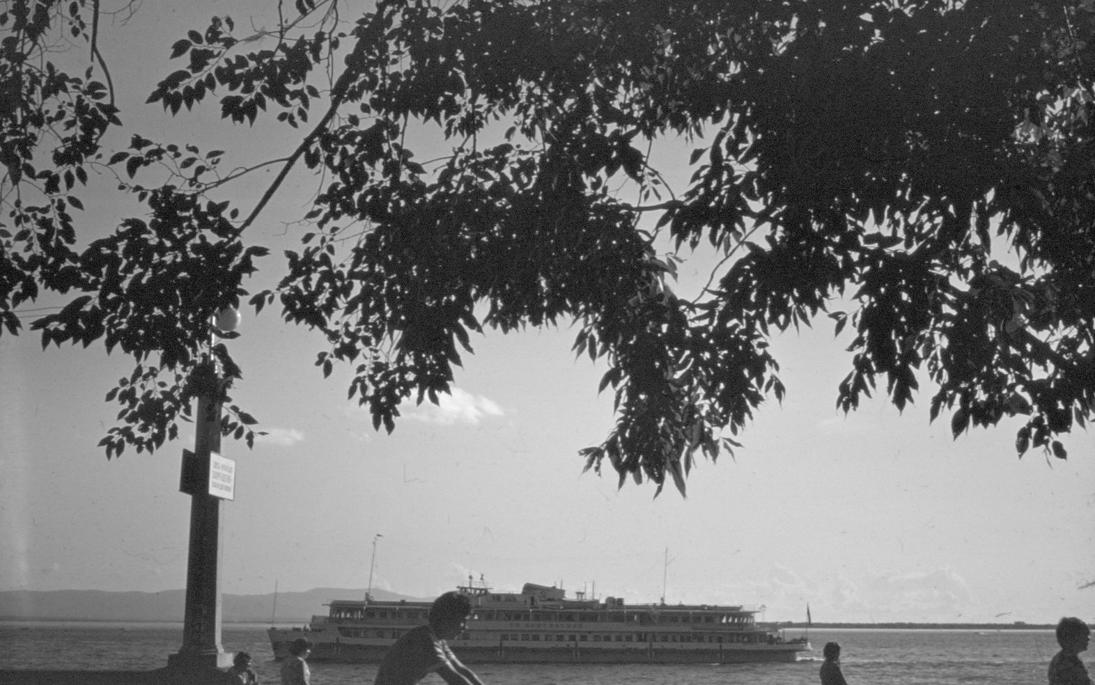 G. I. Nevelskoy in Khabarovsk in 1978